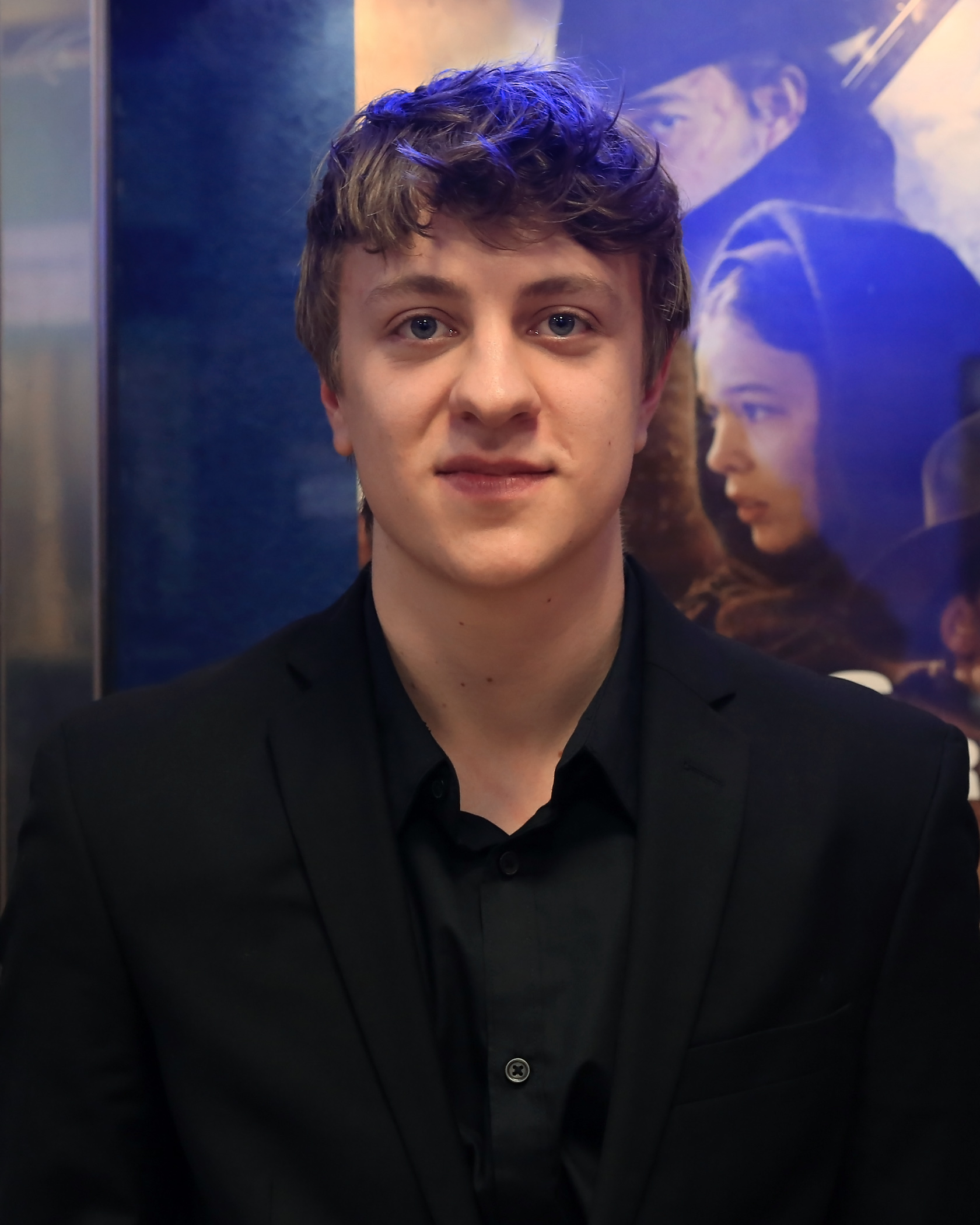 Thomas Schubert at the Austrian premiere of Das finstere Tal at Gartenbaukino in Vienna.